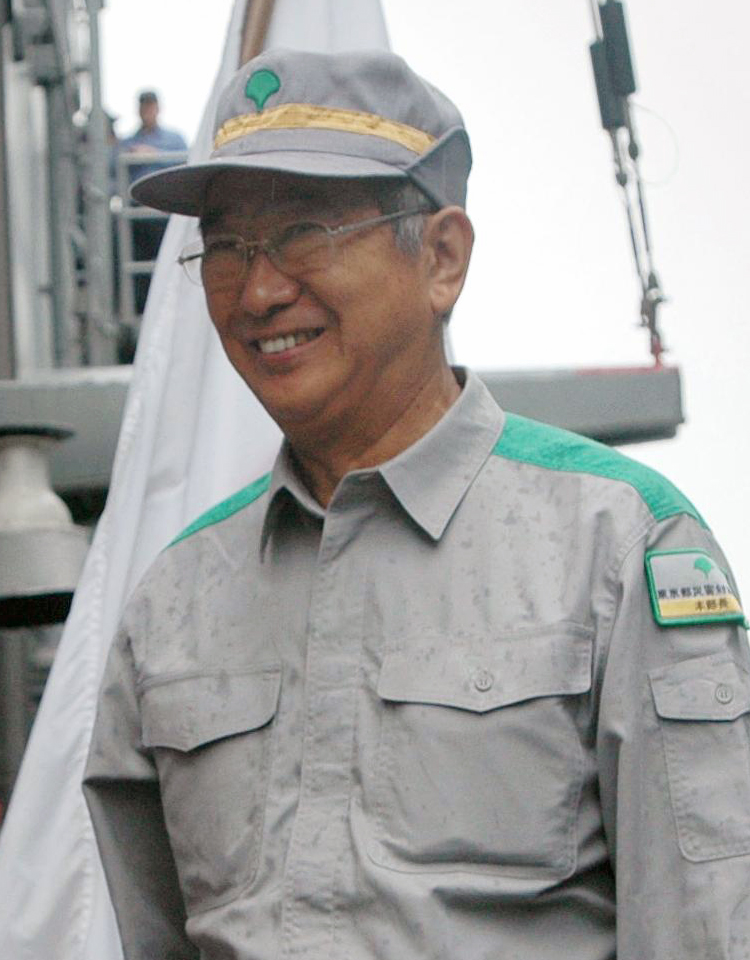 Tokyo Governor Shintaro Ishihara during the Tokyo Metropolitan Government Natural Disaster Drill